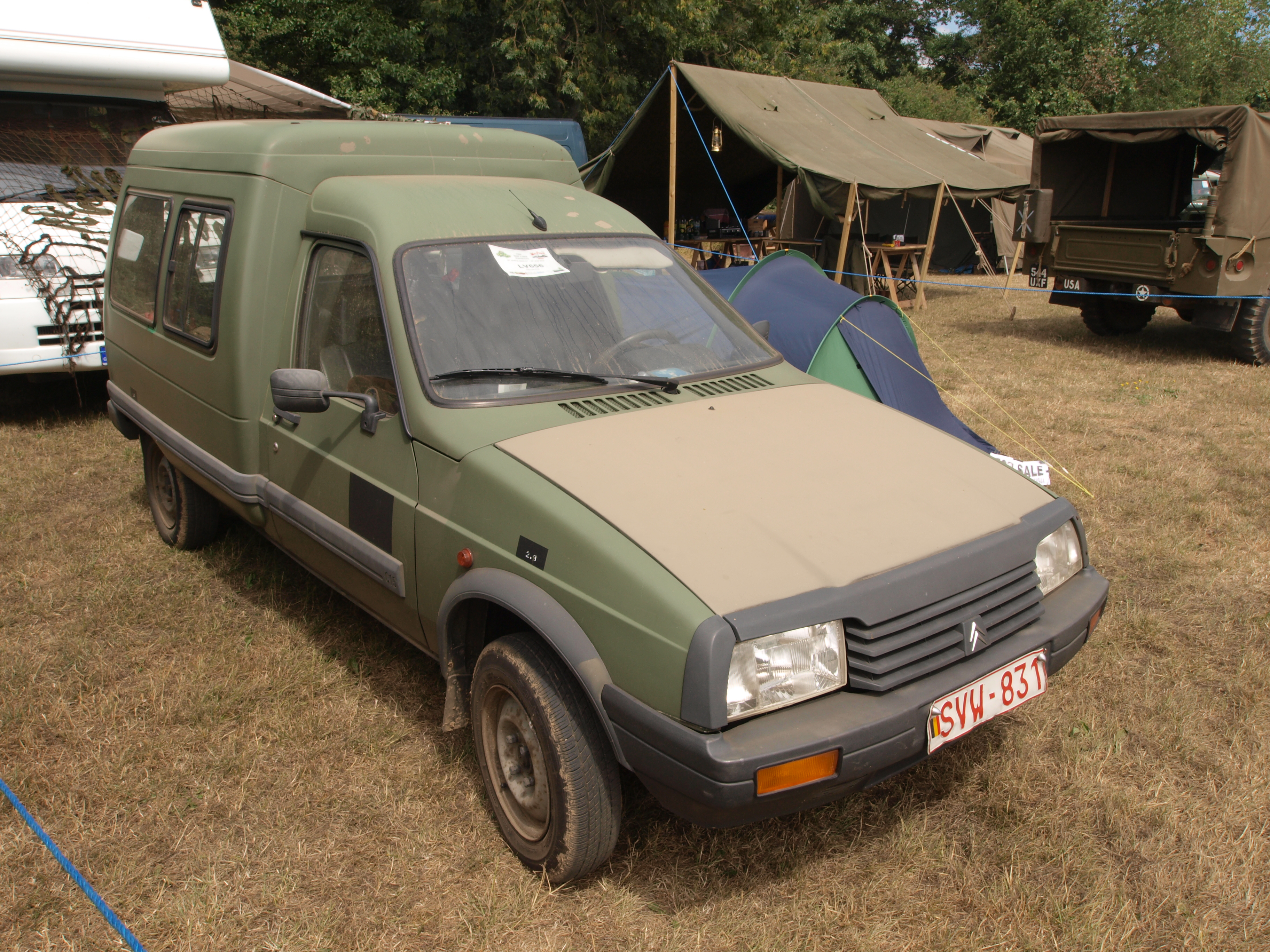 Citroen C15 (1990) owner Claude Mathot.